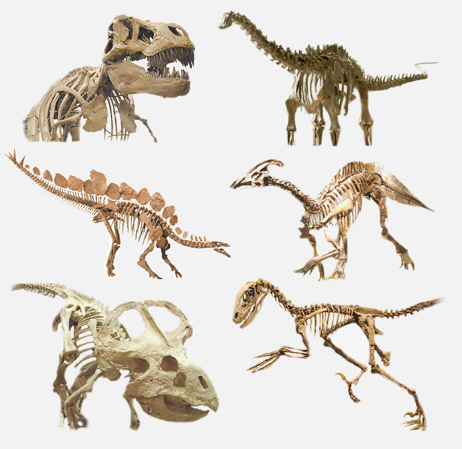 A collection of skeletons mounted in museums of fukui various dinosaurs